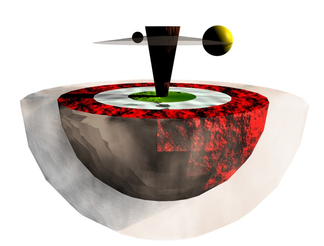 3D-View of the Tibetan structure of the world.